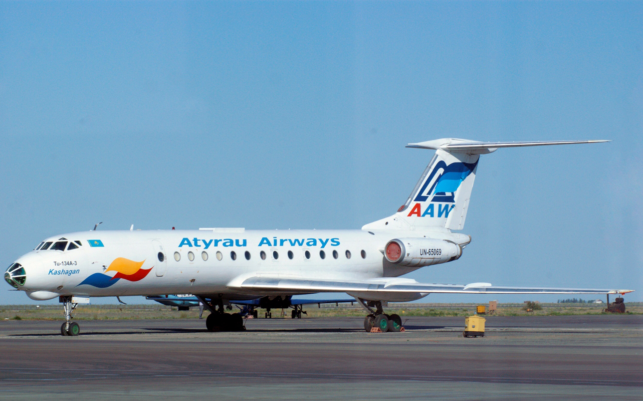 Atyrau Airways Tupolev Tu-134 sitting at Atyrau Airport (2011)